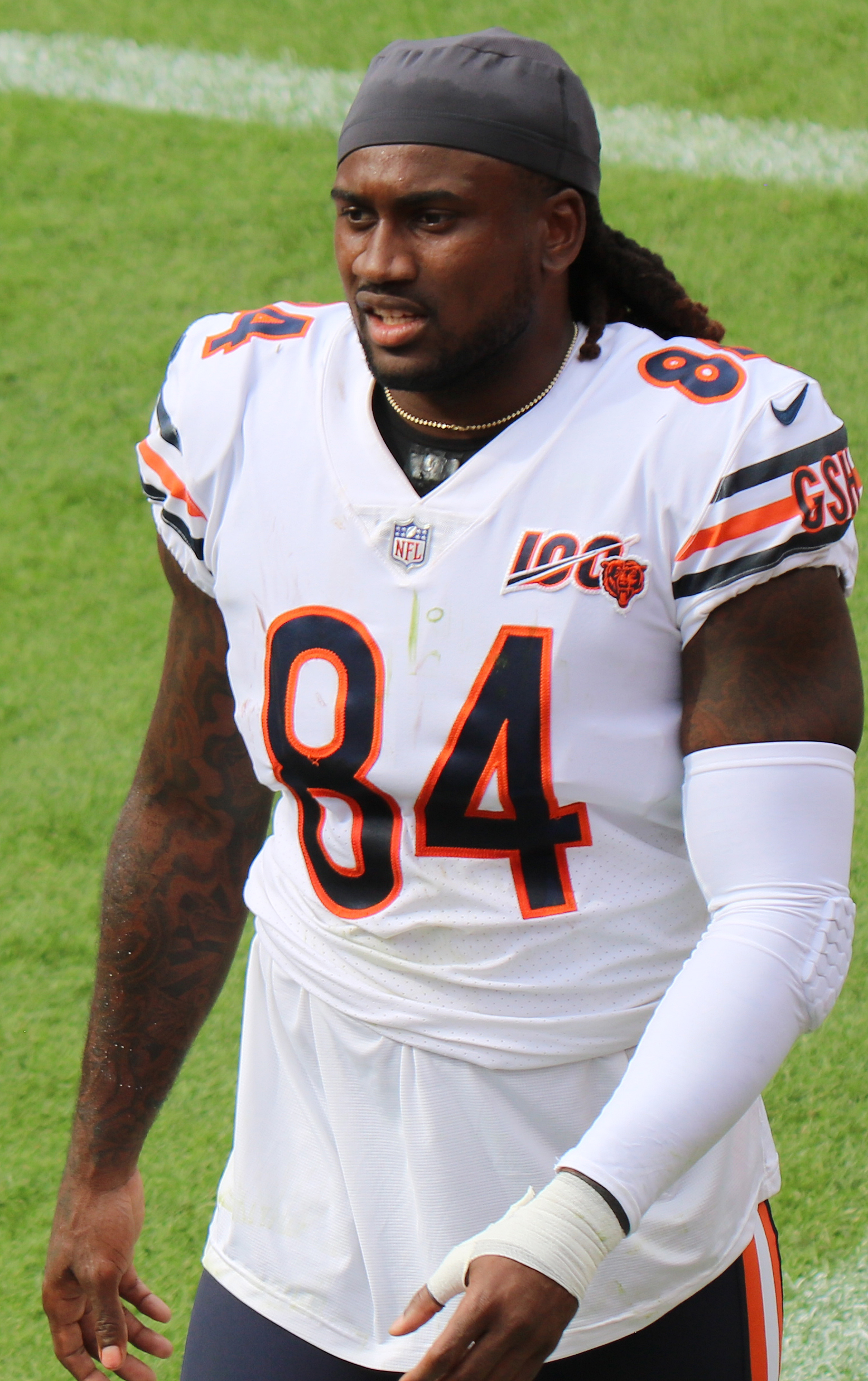 Cordarrelle Patterson, a National Football League player.